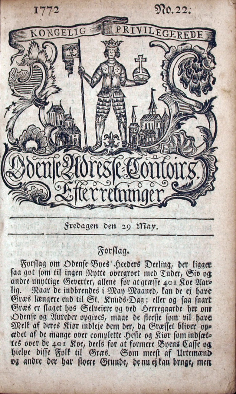 Title page of an issue of "Odense Adresse-Contoirs Efterretninger" from 1772, still in existance today under the name of "Fyens Stiftstidende".